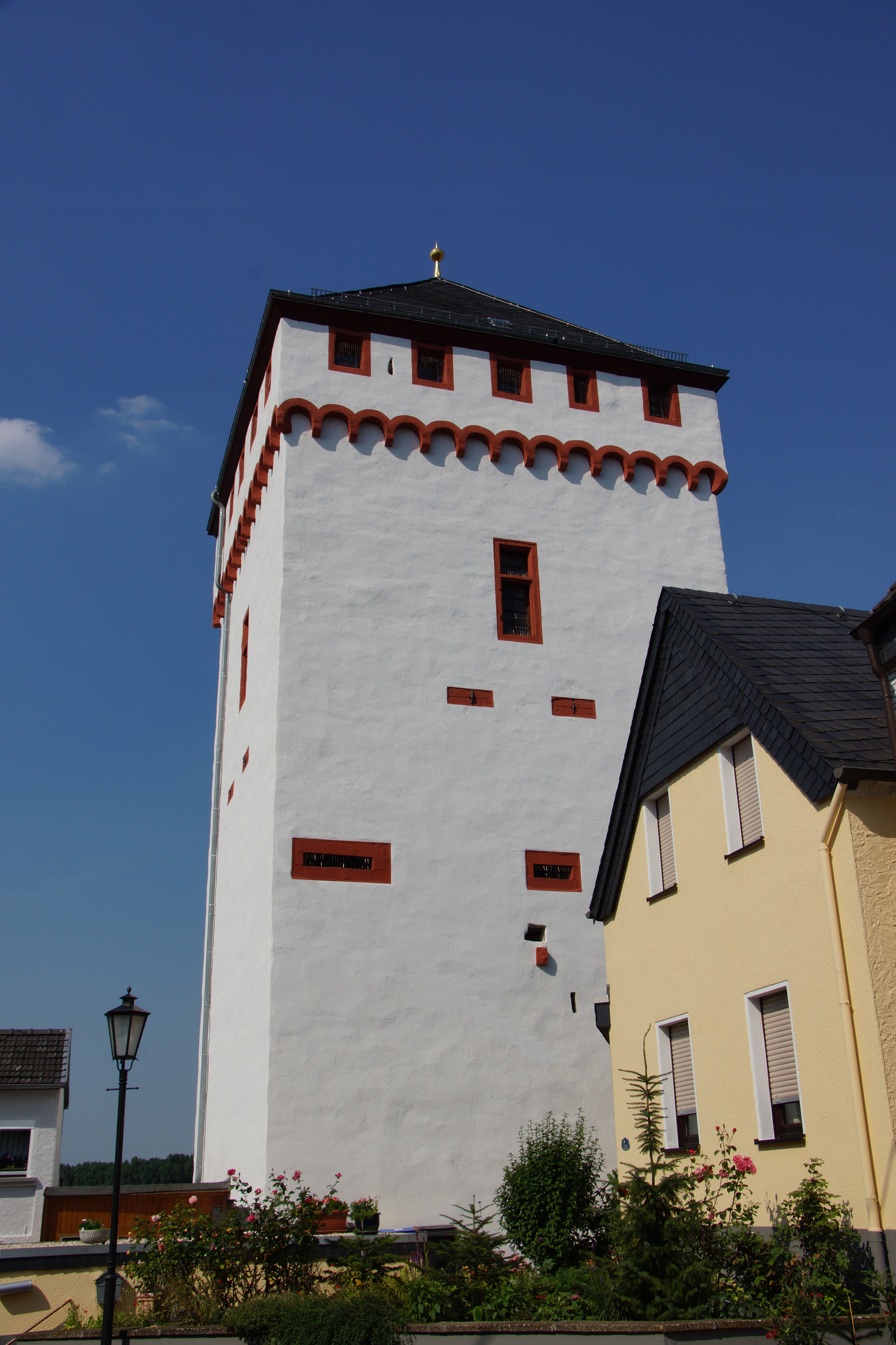 White Tower in Weißenthurm